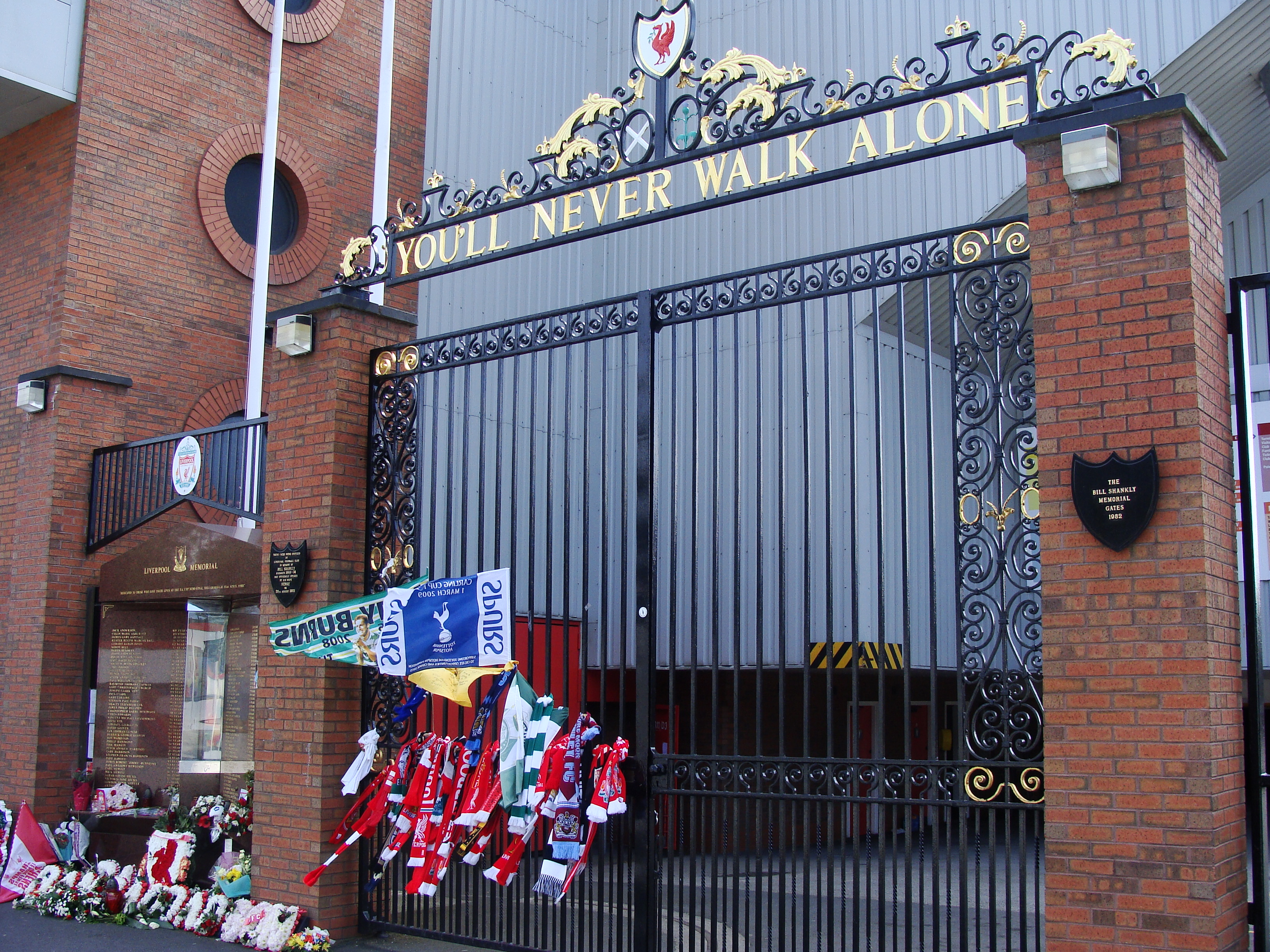 The You'll Never Walk Alone gates with flowers and scarfs